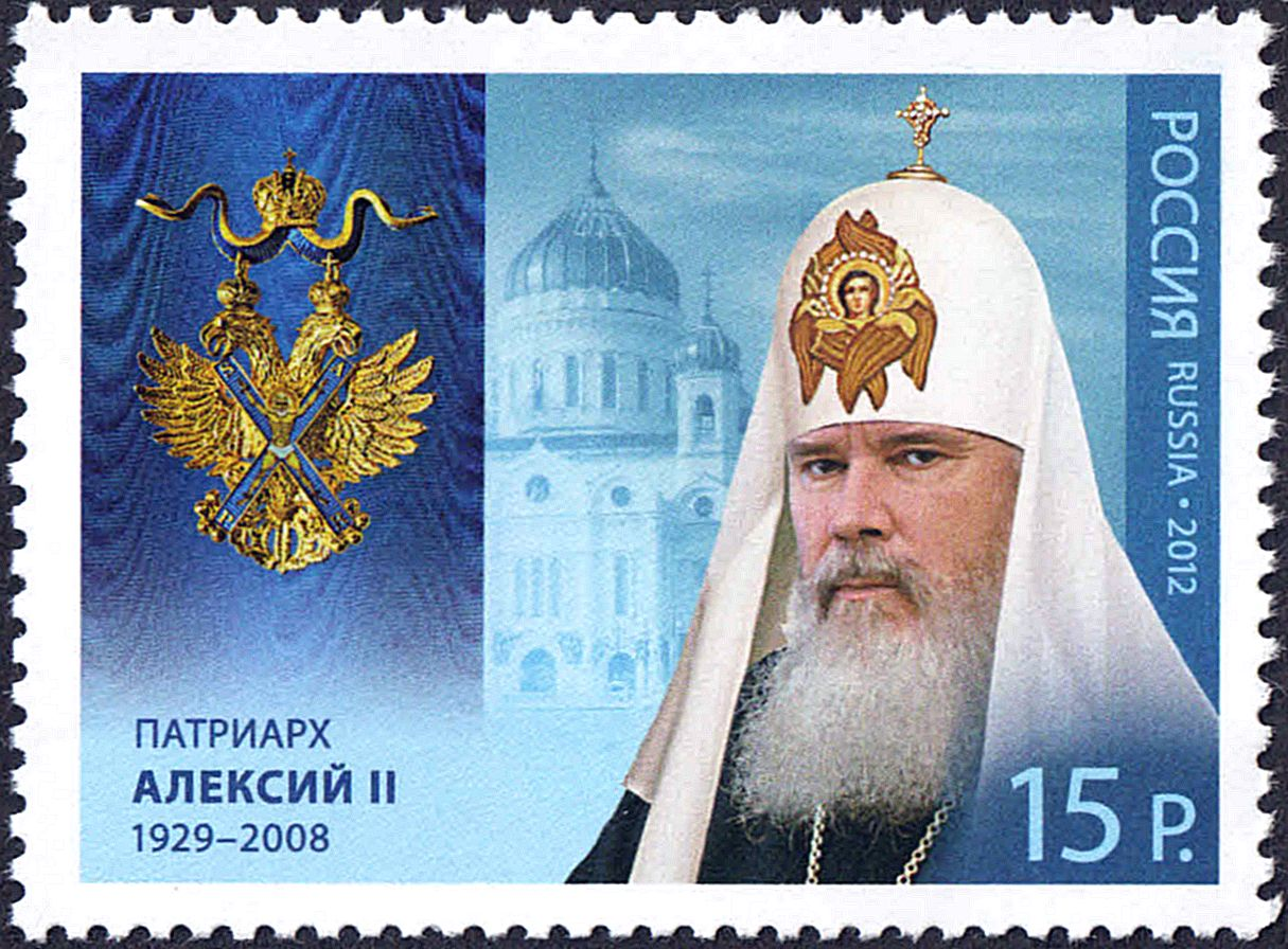 Recipients of the Order of St. Andrew the Apostle the First-Called (the ongoing series, issue II). Alexy II[1] (1929–2008), the Holy Patriarch of Moscow and all the Rus’. There depicted the badge of the Order of St. Andrew on the left. The stamp of Russia, 15.00 Rubles, 29 June 2012, PTC Marka Catalogue No 1602, Michel No 1834. Coated paper. Offset printing, varnish coating. Perforation: comb 12×11½. Size of the stamp: 50×37 mm. Print run: 440,000.